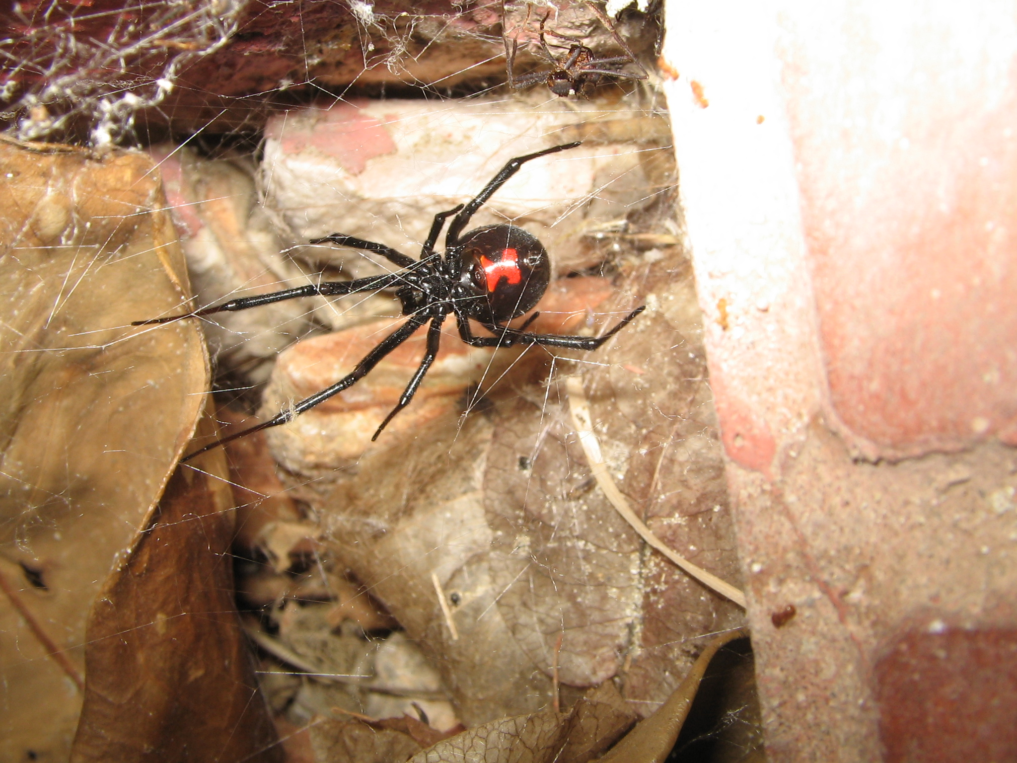 A female black widow spider hanging on its web, found near a hotel in Playas del Este, Cuba. The typical red hourglass pattern is clearly visible on its abdomen, as well as its epigynum and spinnerets (silk glands).